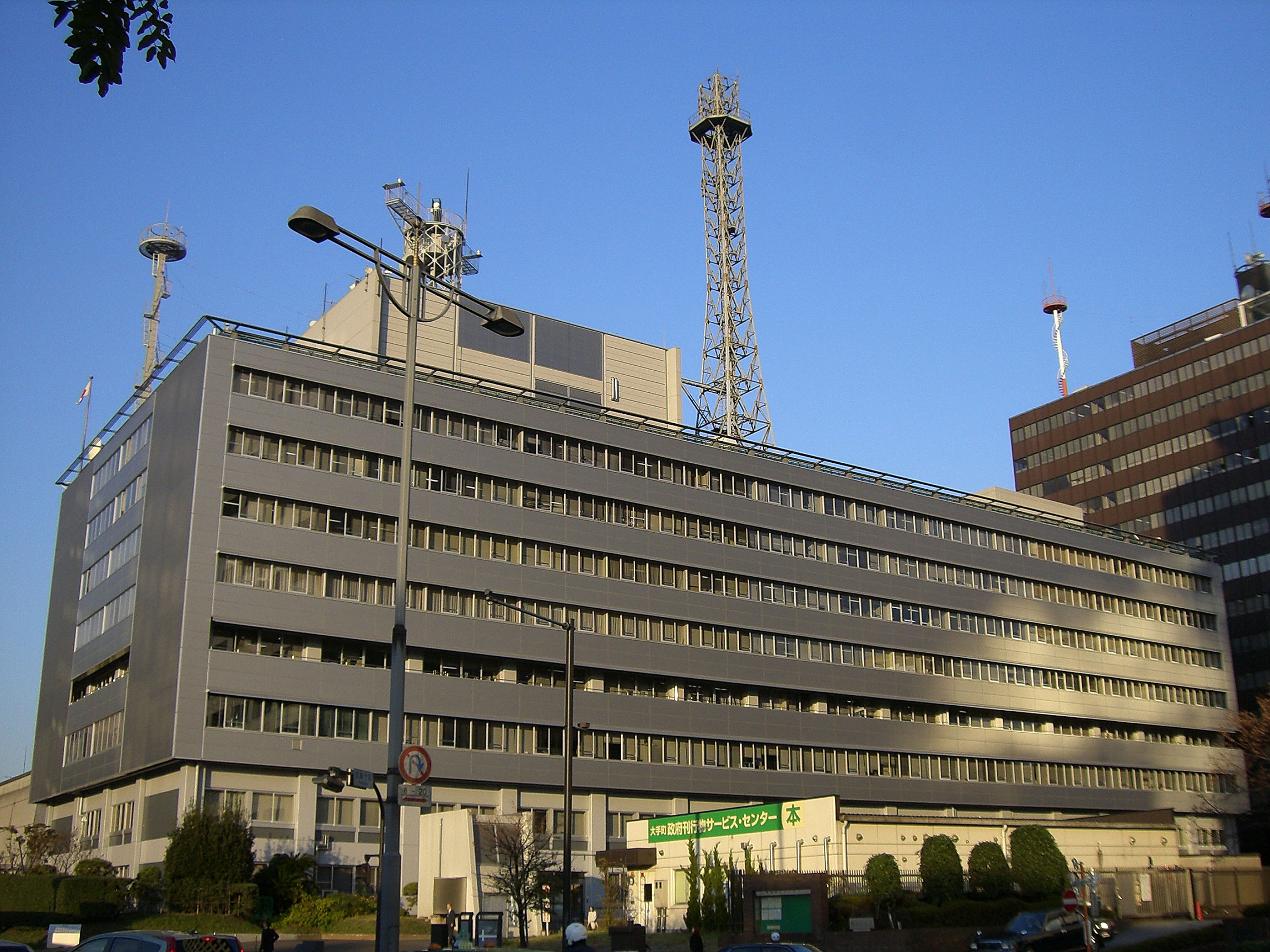 Japan Meteorological Agency building in Chiyoda, Tokyo.